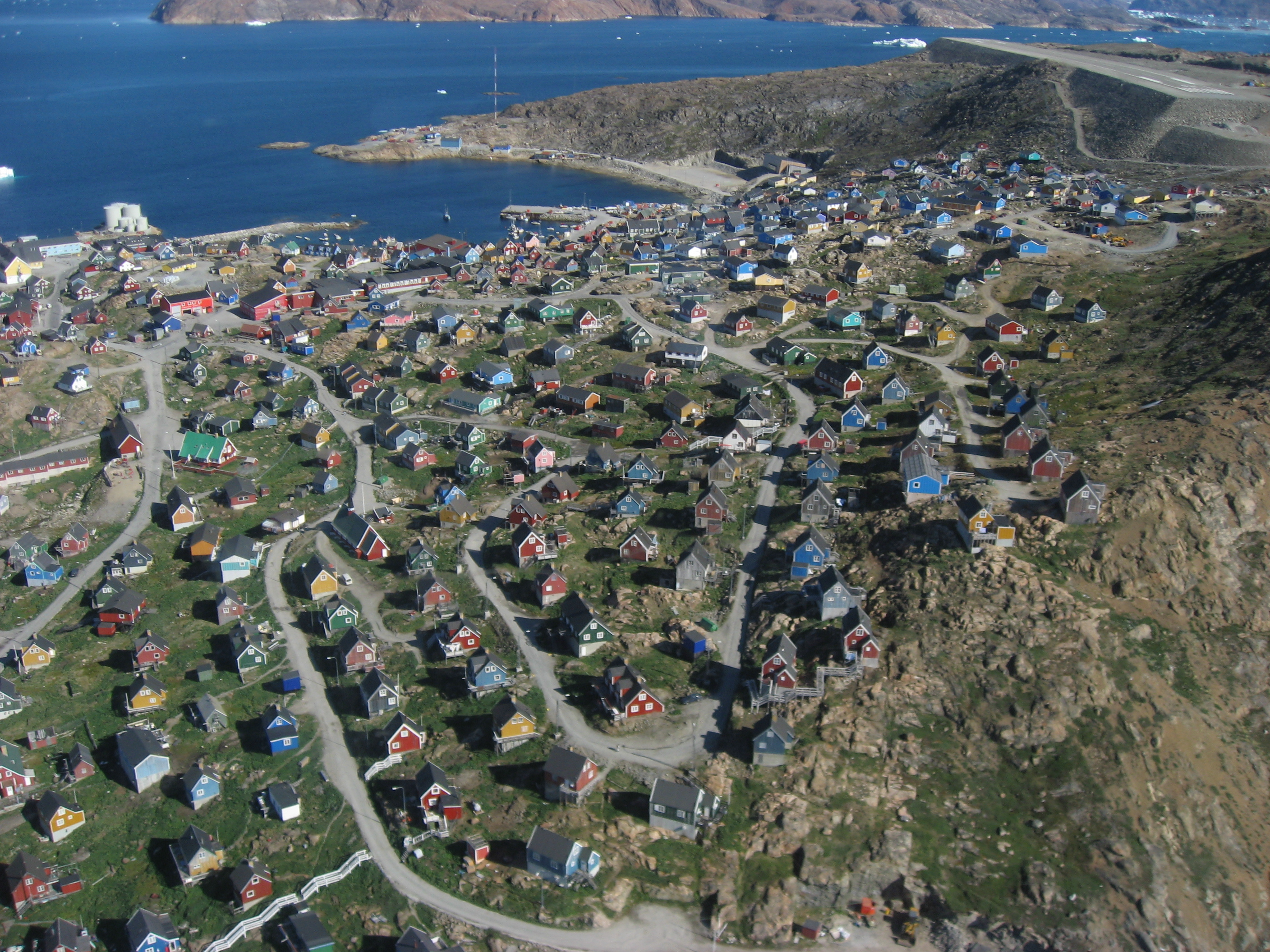 Aerial photograph of Upernavik town, Greenland. The photograph was taken from a Bell helicopter approaching Upernavik.